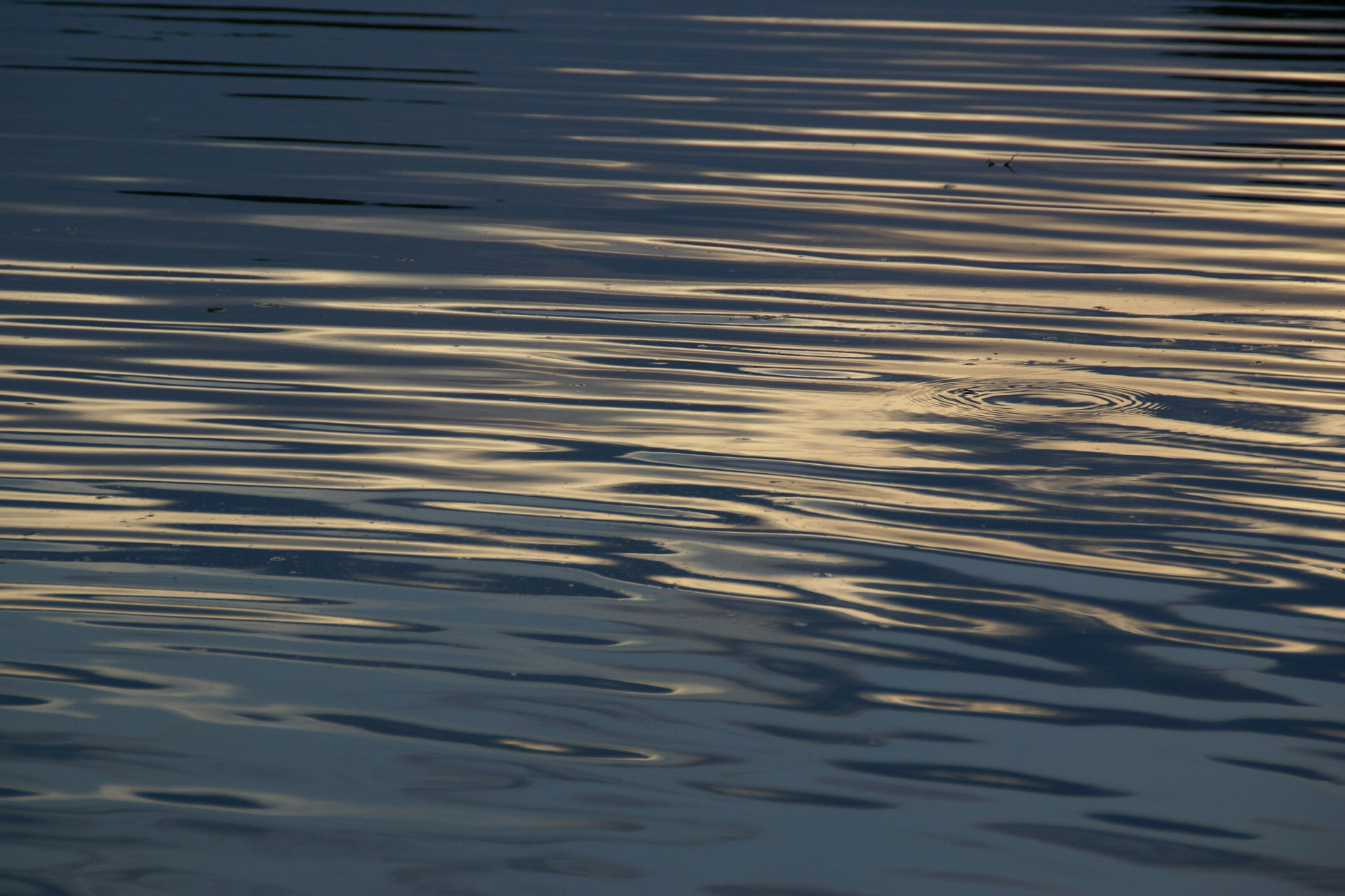 Water waves at Silbersee, Bobenheim-Roxheim, Germany